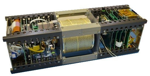 The Tether Electrodynamics Propulsion CubeSat Experiment by Naval Research Laboratory